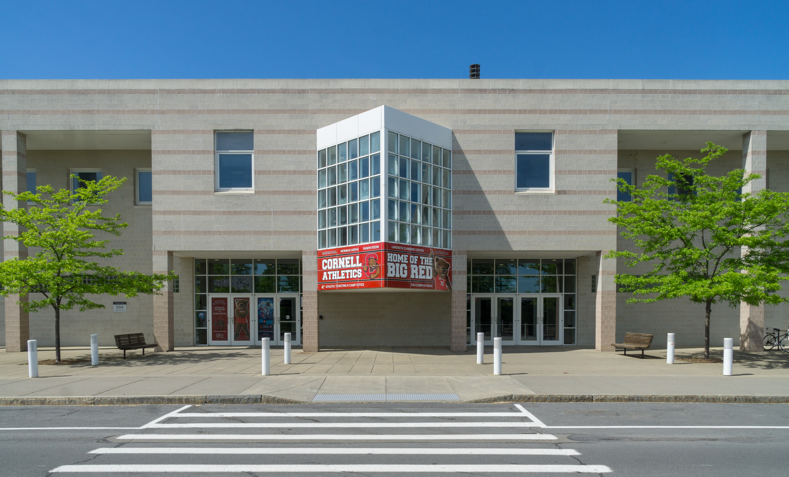 Bartels Hall, home of Newman Arena. 554 Campus Road. Opened 1990. Architect: Gwathmey, Siegal. Cornell University, Ithaca, NY